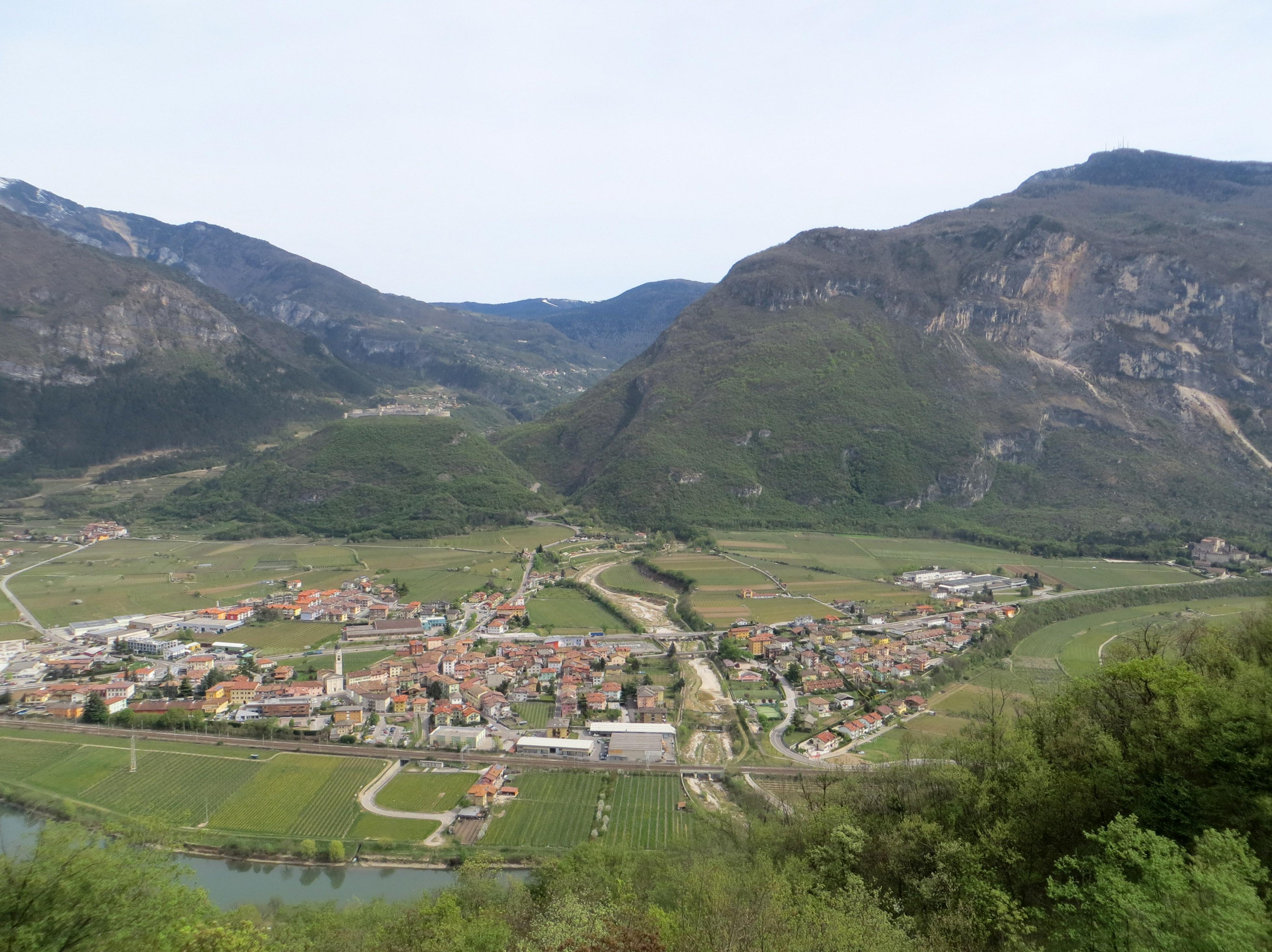 panorama